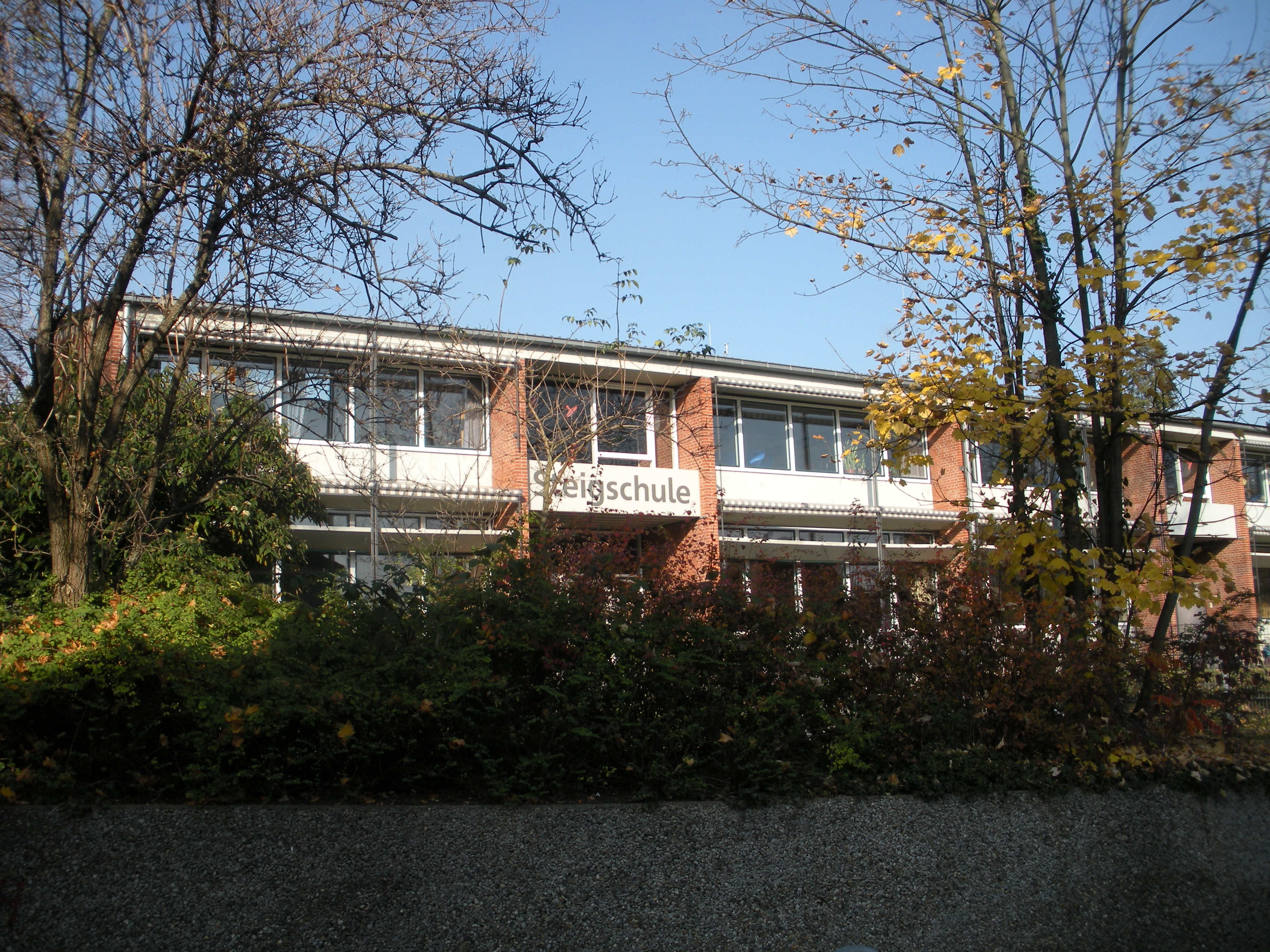 Steig-School in Stuttgart-Bad Cannstatt